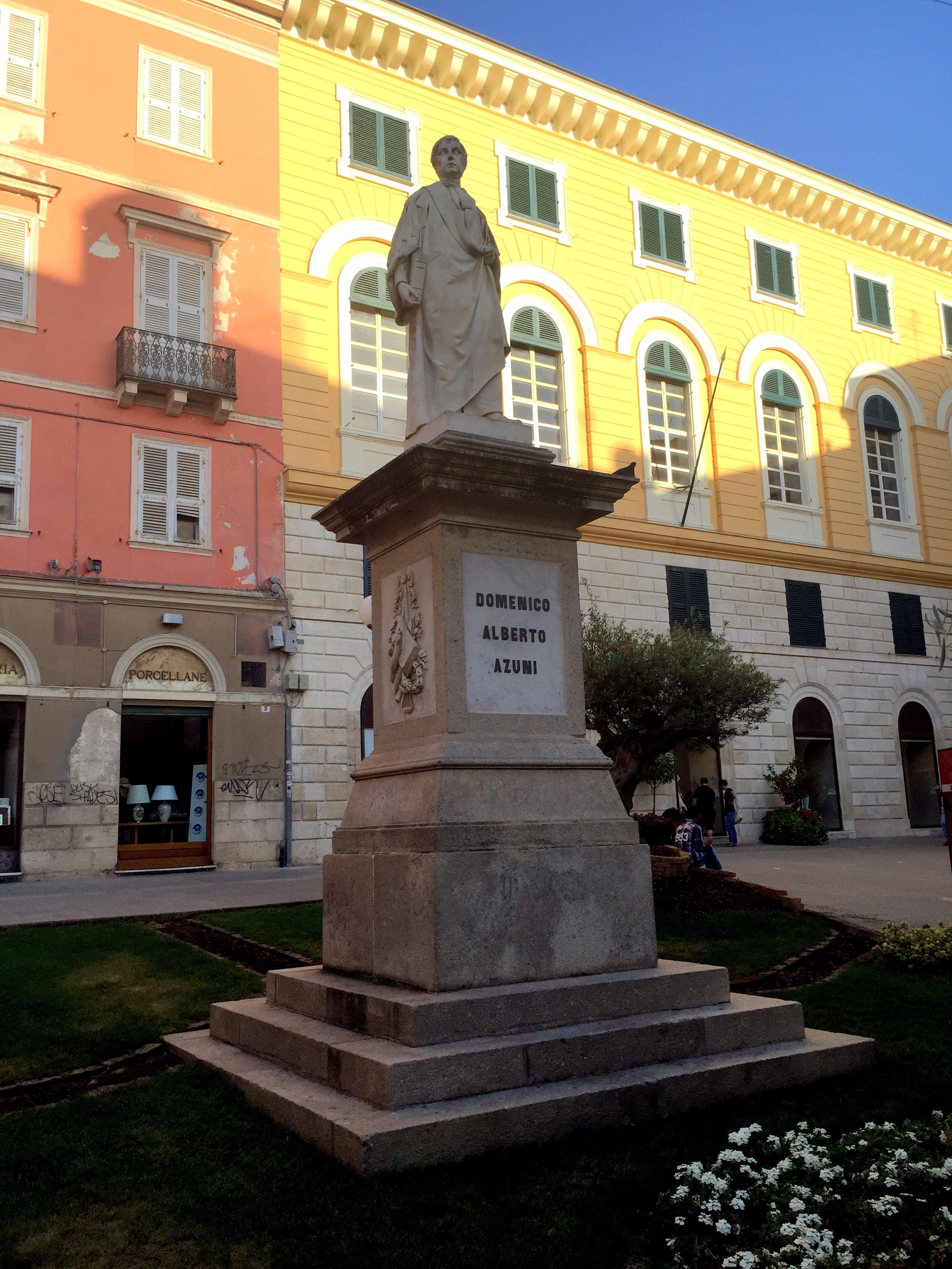 This photograph was taken with an iPhone 6